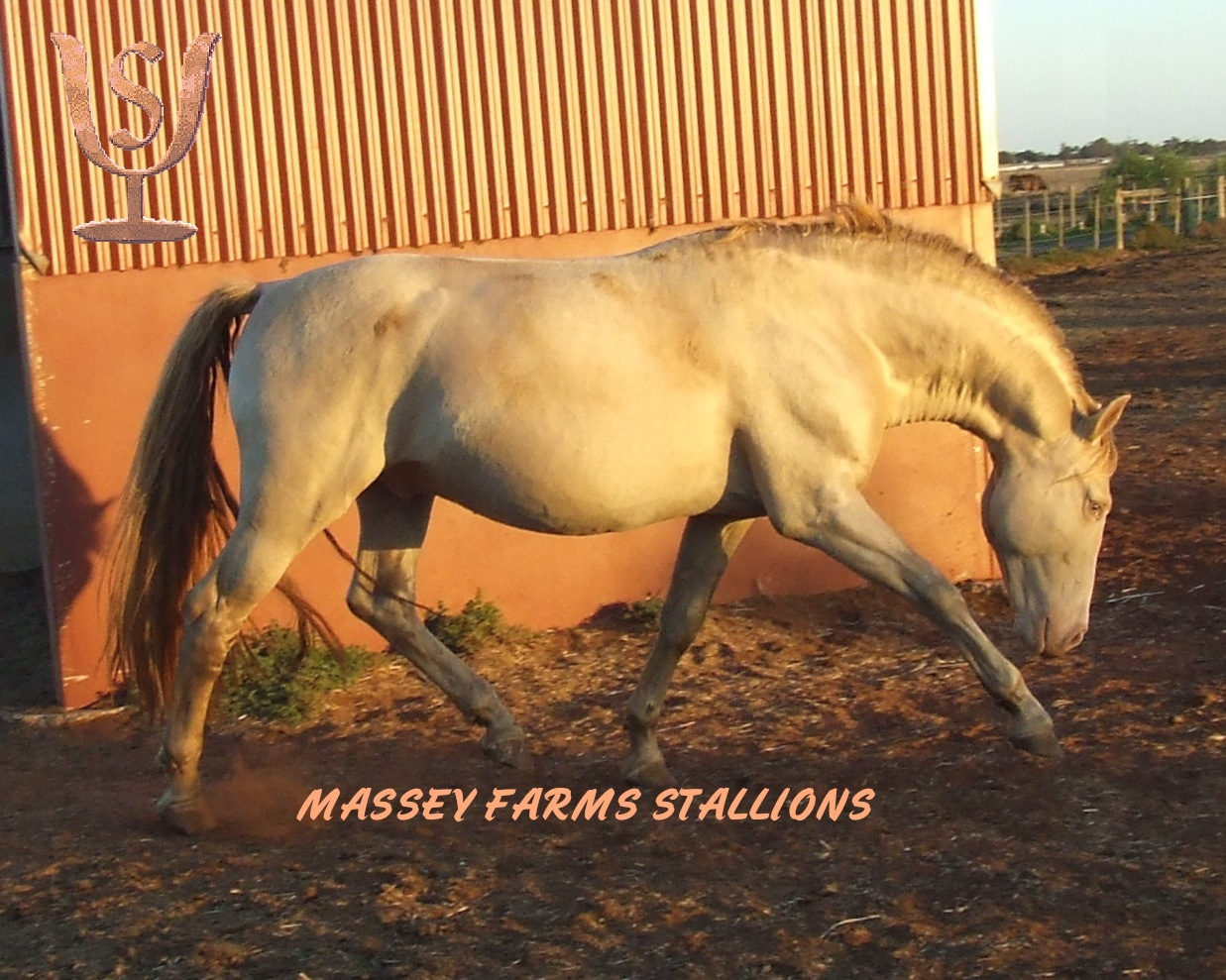 Majodero R stands at stud in Australia.